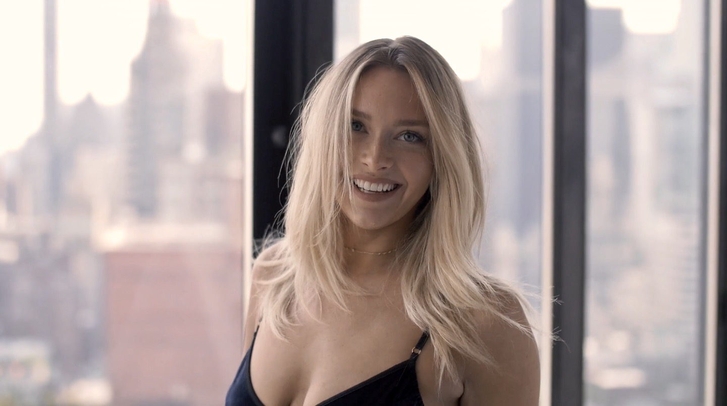 Camille Kostek in New York, July 2017